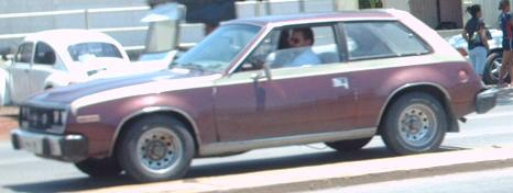 Filte title is misleading - this either is a US-built AMC Spirit or a Mexican-assembled VAM Gremlin. VAM (Vehículos Automotores Mexicanos) assembled certain AMC-models under licence und marketed them partly under differing model names. So the AMC Spirit sedan was a VAM Gremlin in Mexico. Photographed in Mazatlan, Sinaloa, Mexico.